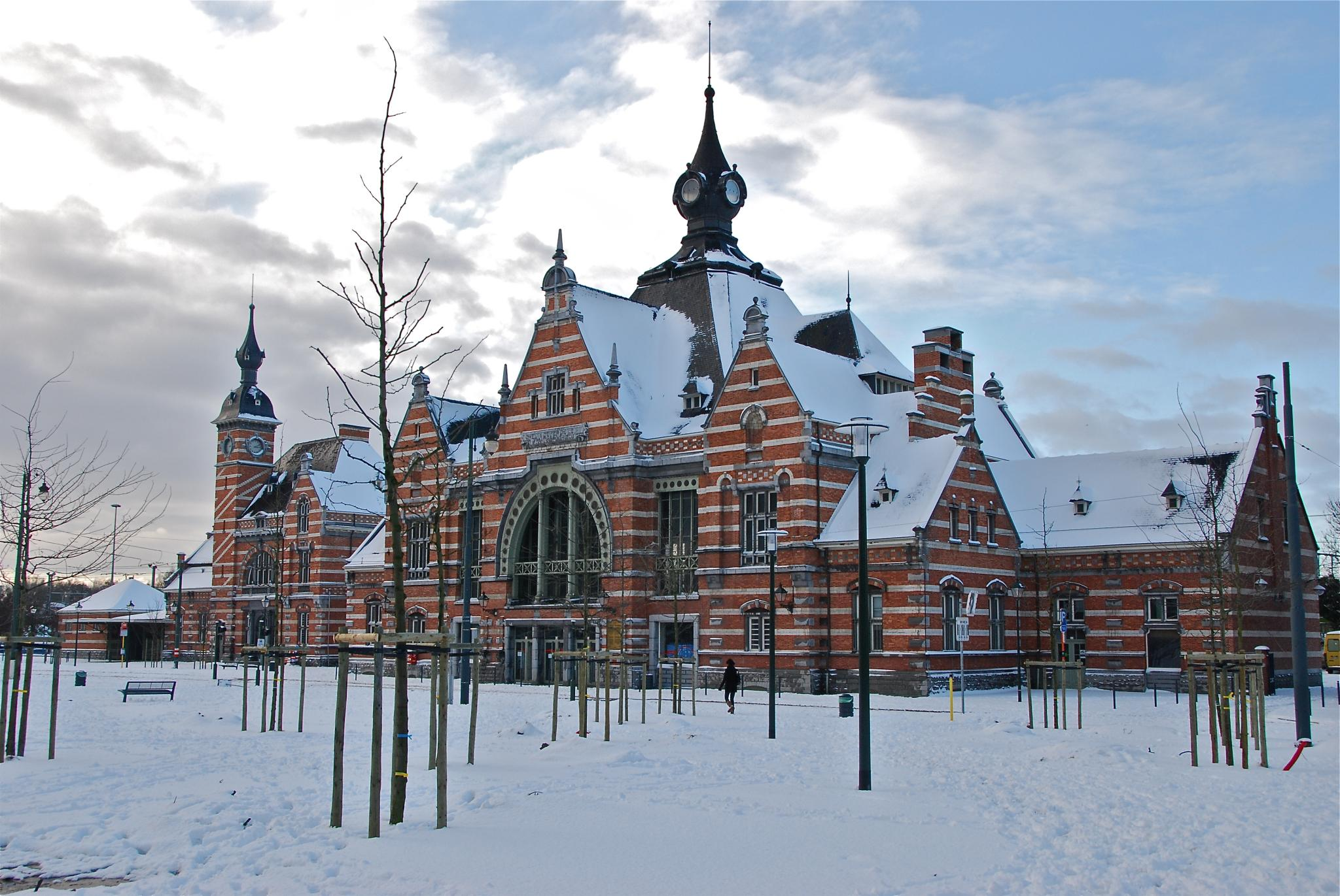 The Schaerbeek station Brussels